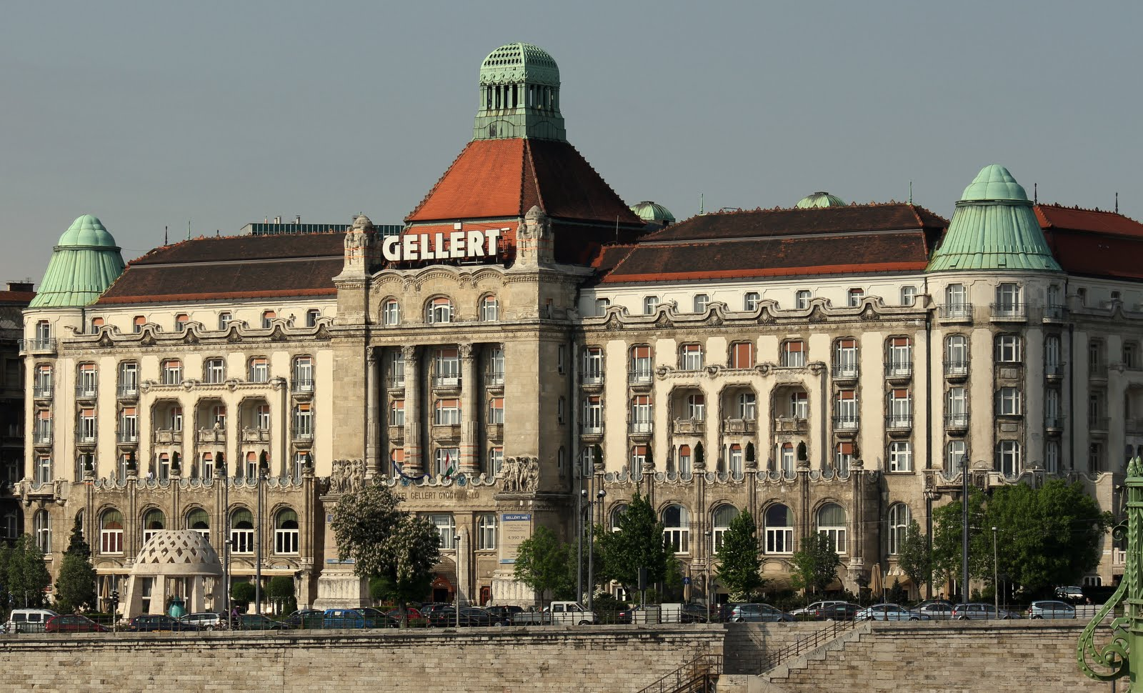 World famous Hotel Gellért in Budapest, Hungary